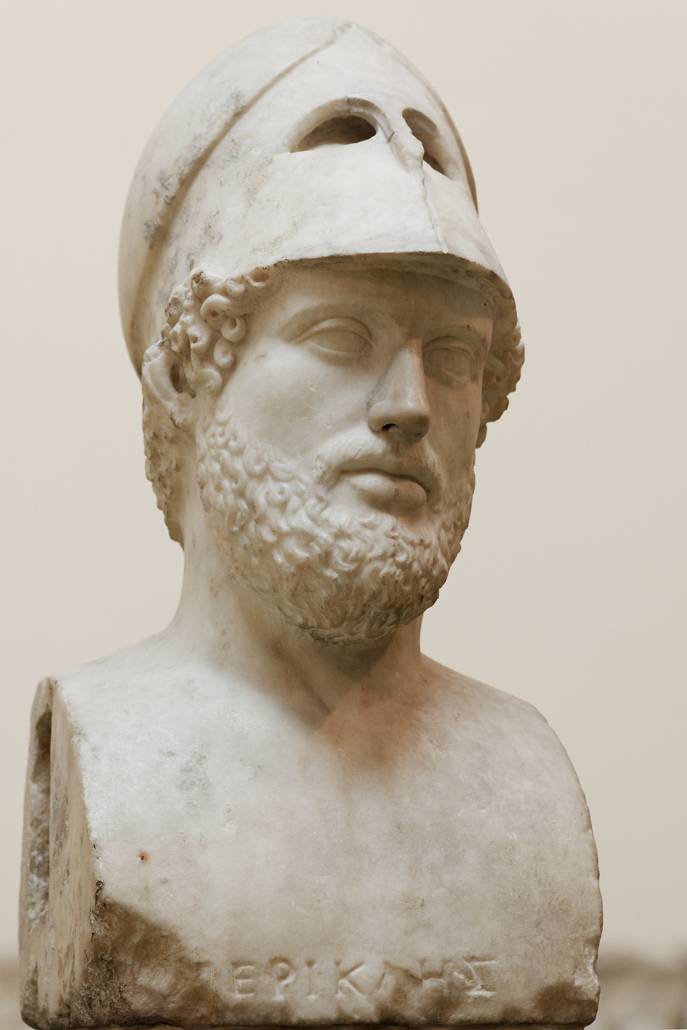 Idealised bust of Pericles. Roman copy of the 2nd century CE after a Greek original of the Late Classical era.